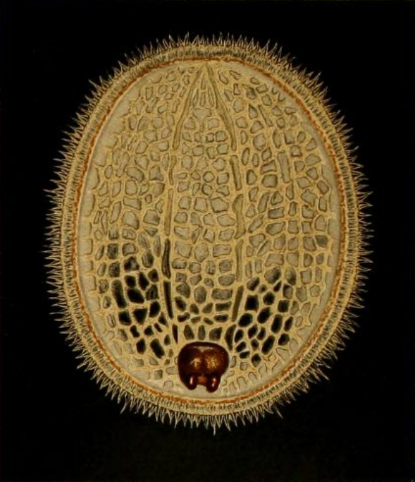 Microdon Eggeri larva, after the second moult, seen from above. (valid synonym = Microdon analis)